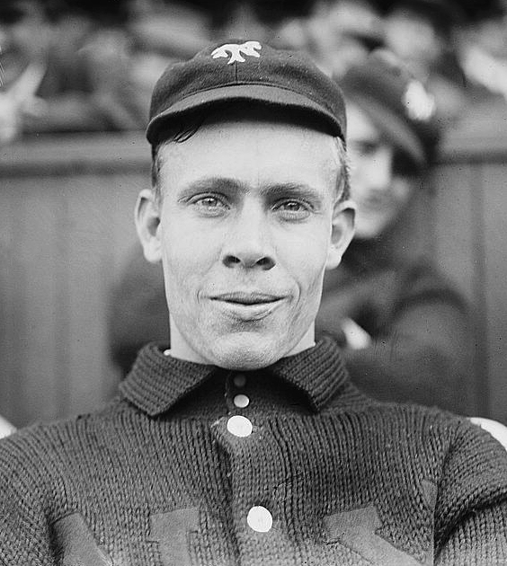 Bain News Service, publisher. Louis Drucke, New York, NL (baseball) in 1912 [1911] (date created or published later by Bain) 1 negative : glass ; 5 x 7 in. or smaller. Notes: Original data provided by the Bain News Service on the negatives or caption cards: Druke (Giants). Corrected title and date based on research by the Pictorial History Committee, Society for American Baseball Research, 2006. Forms part of: George Grantham Bain Collection (Library of Congress). Subjects: Baseball Format: Glass negatives. Repository: Library of Congress, Prints and Photographs Division, Washington, D.C. 20540 USA, General information about the Bain Collection is available at Persistent URL: Call Number: LC-B2- 2201-8